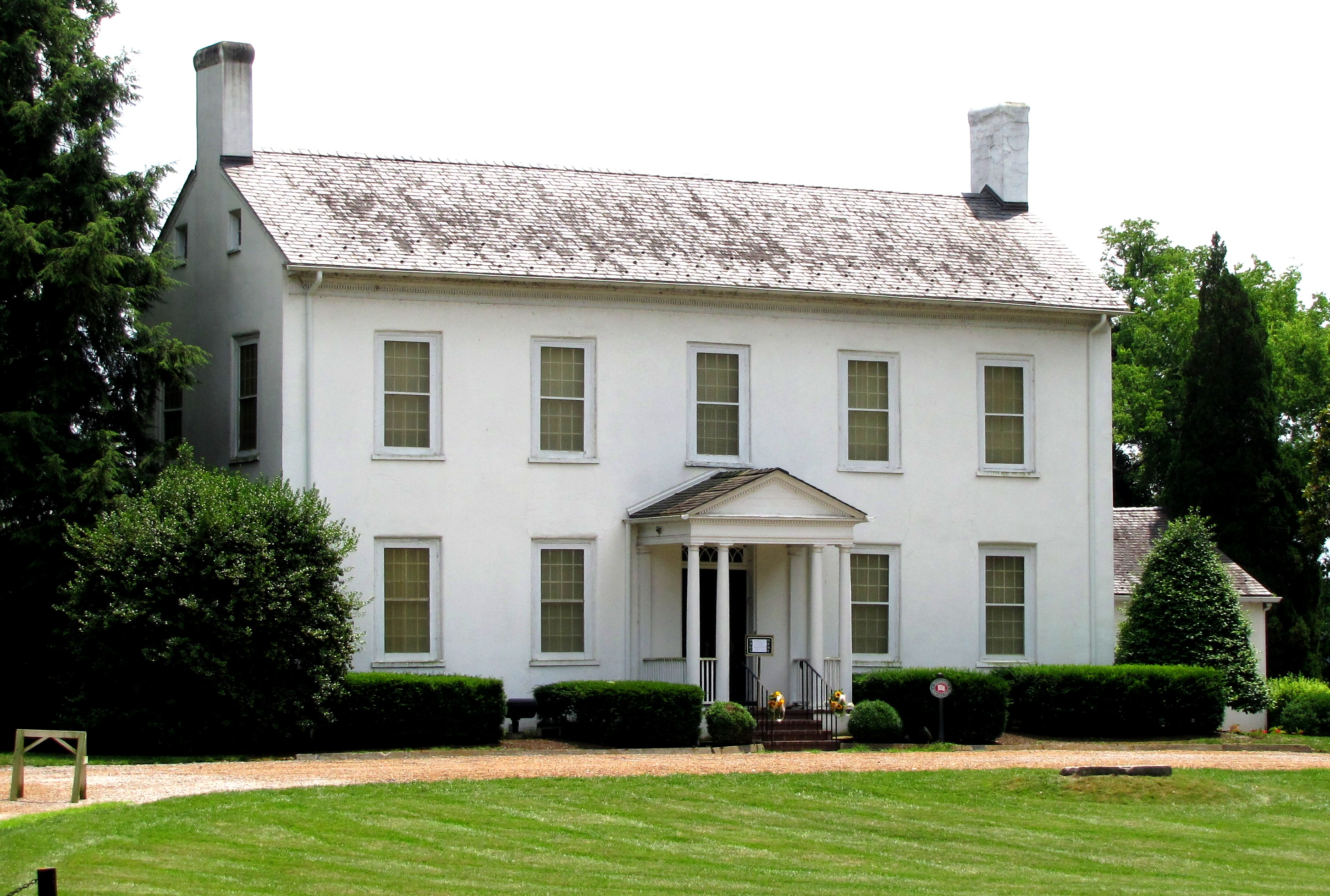 Crescent Bend (2758 Kingston Pike), also called the Armstrong-Lockett House, in Knoxville, Tennessee, USA. Built in 1834, this house is now listed as a contributing property in the NRHP-listed Kingston Pike Historic District.